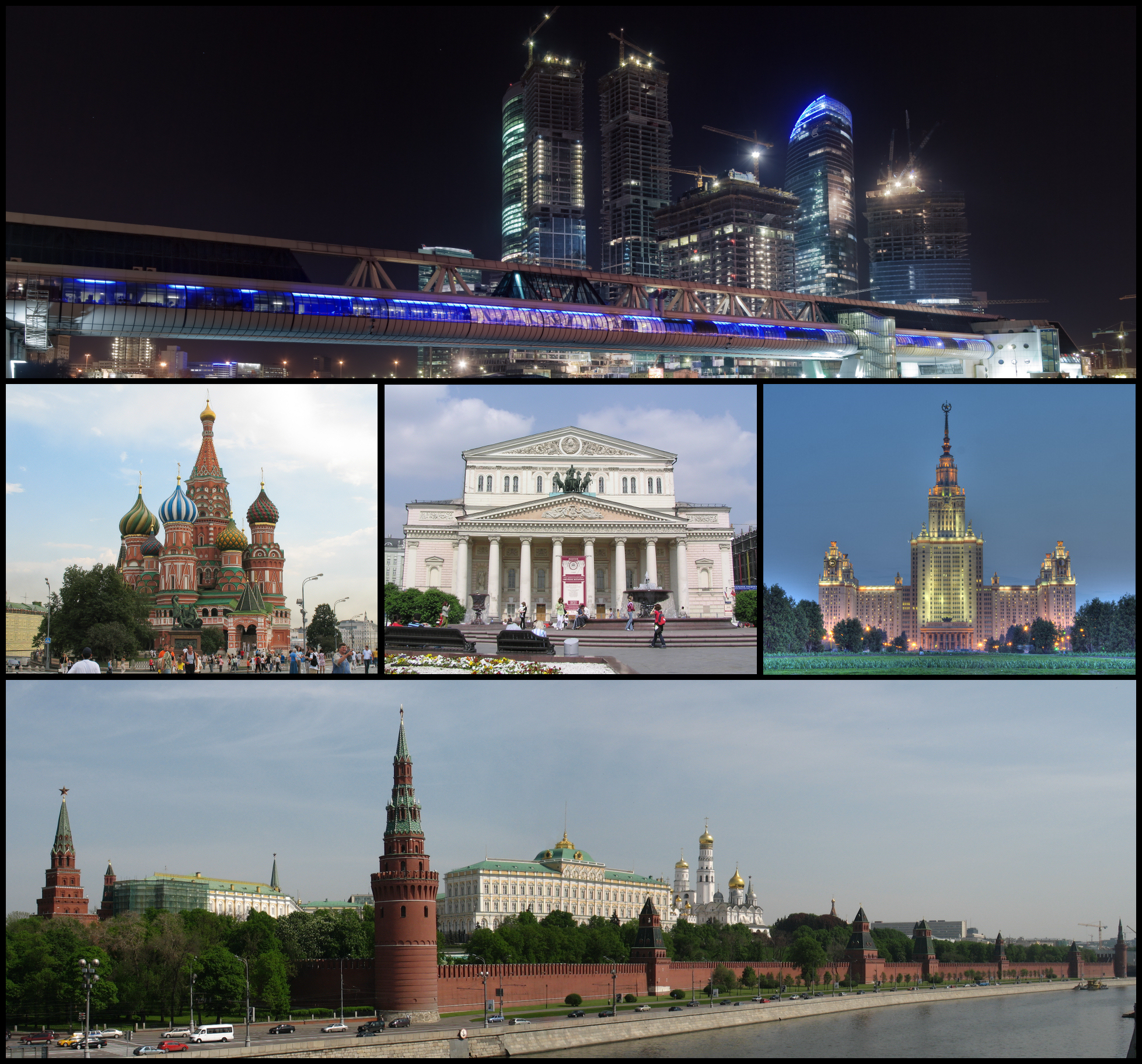 Collage of views of Moscow